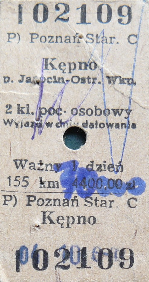 Edmondson Ticket PKP from Poznan Staroleka Station.